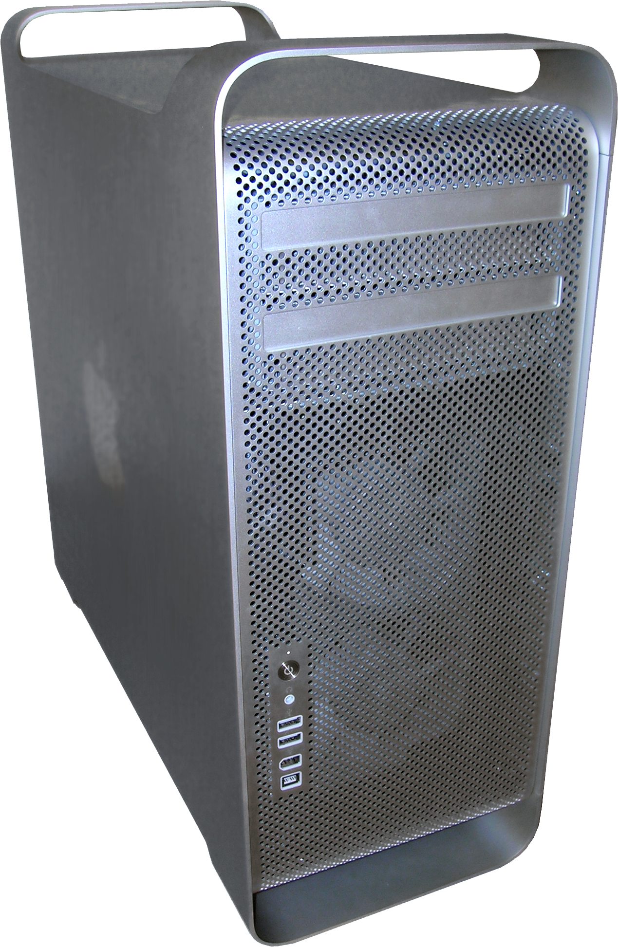 uploaded to replace Image:moosa.png as this one is released under public domain by me